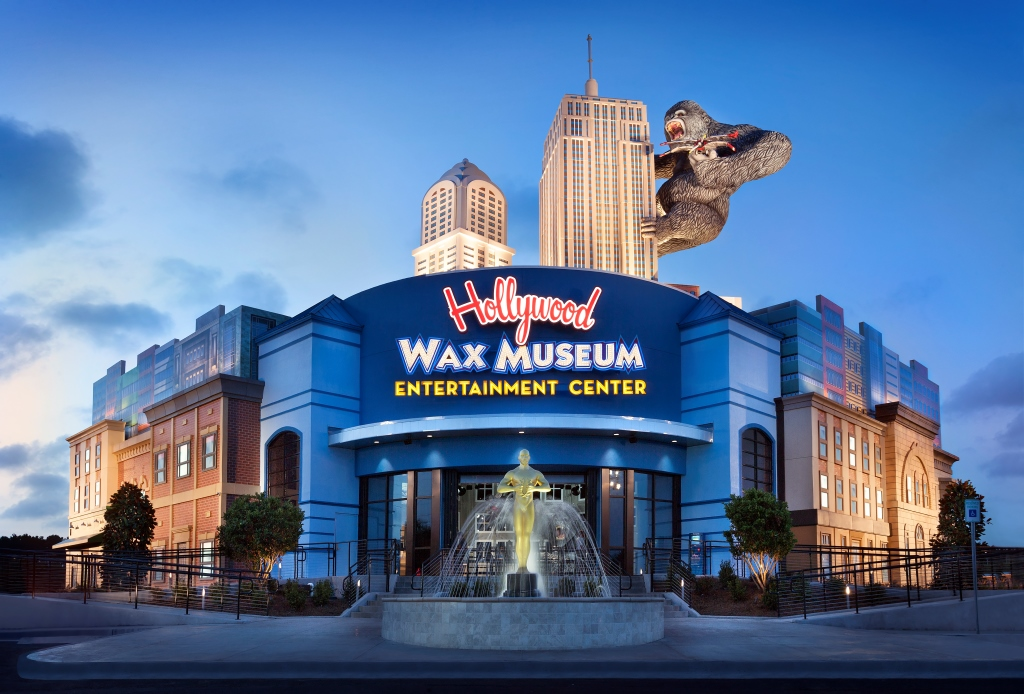 Photograph of the Hollywood Wax Museum building in Myrtle Beach SC